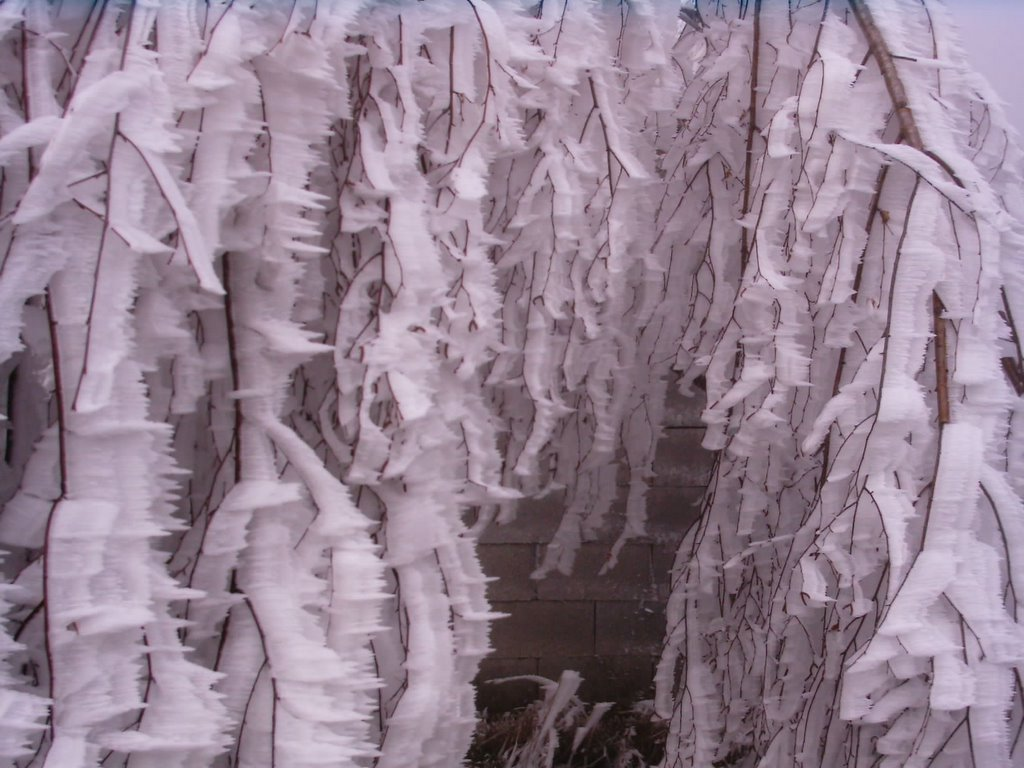 Hard rime in Trancoso, Portugal